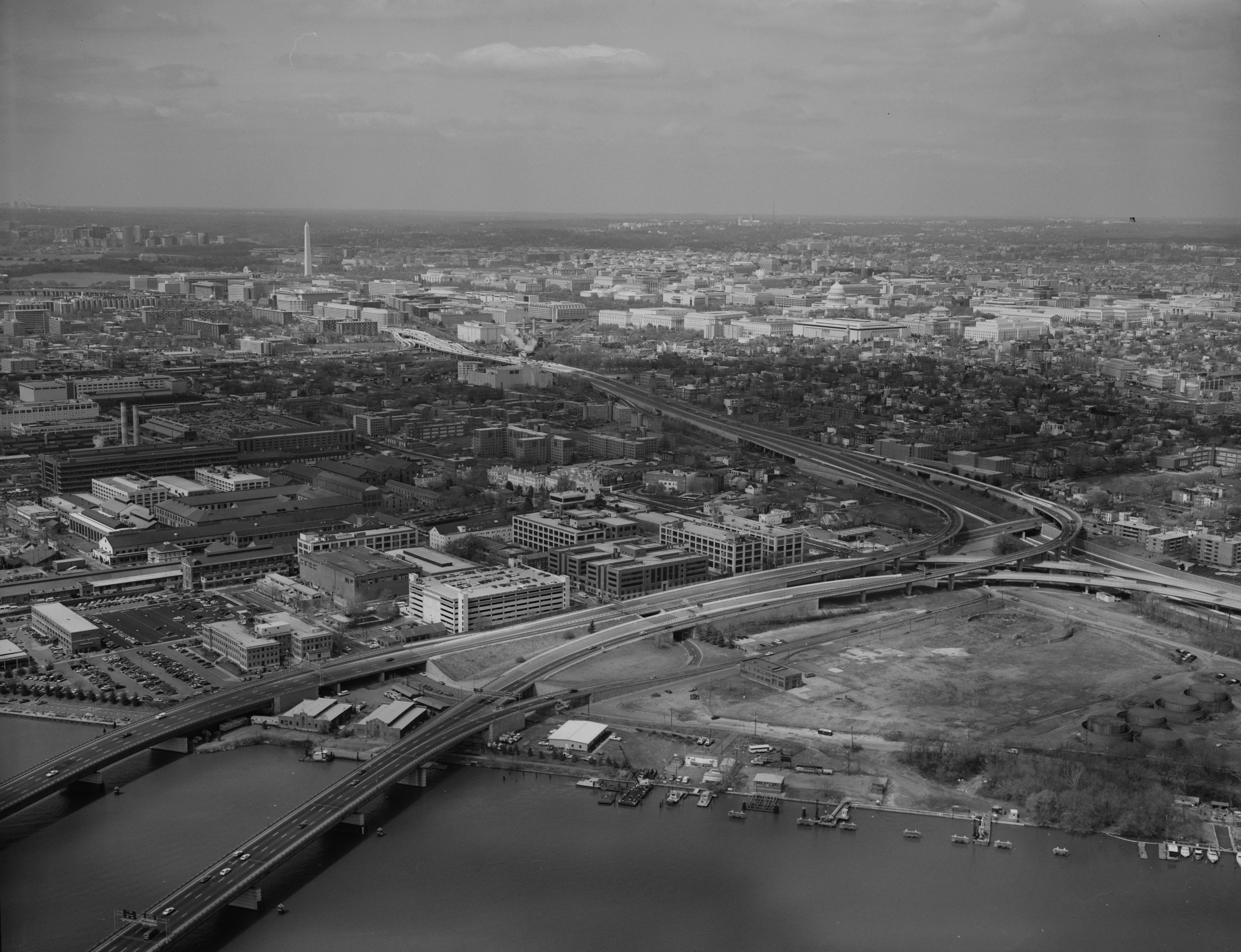 Aerial view of the southeast quadrant of Washington, D.C., looking northwest from above the Anacostia River. The 11th Street Bridges can be seen in the lower left corner of the image. Southeast Freeway runs diagonally through the center of the image. The two buildings of the Anacostia Community Boathouse can be seen between the two bridges. The vacant parcel of land to the right of the northbound (upstream) span is now occupied by the Maritime Plaza office buildings.